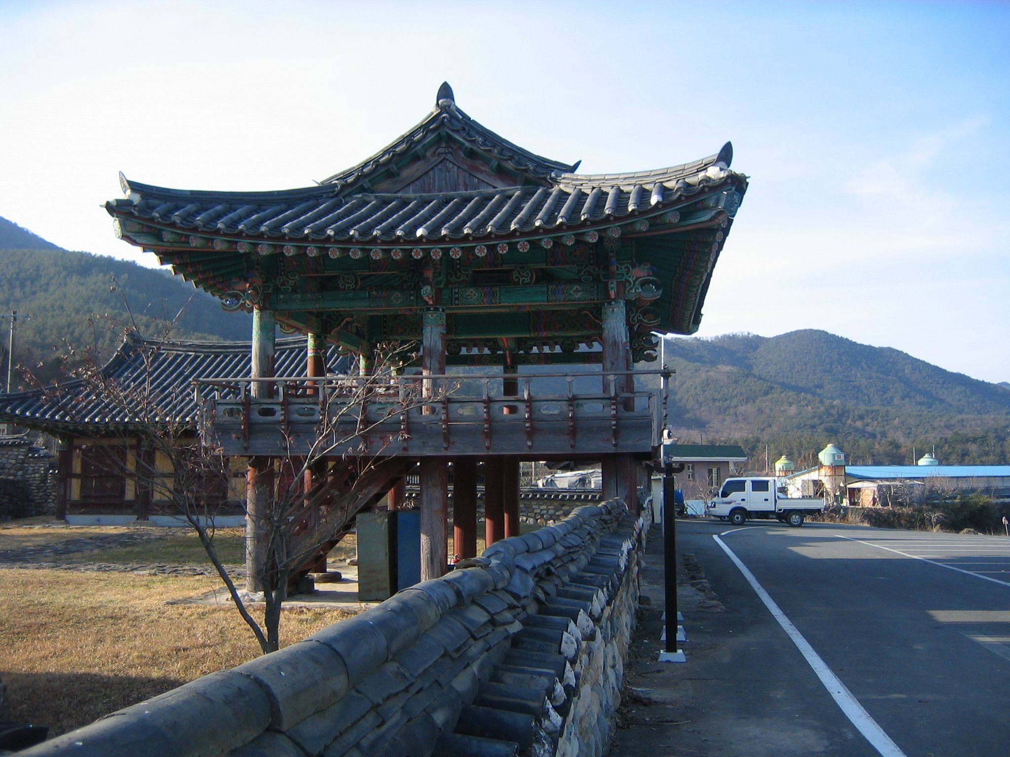 Side view of the Dokseoru pavilion at Yerim Seowon.